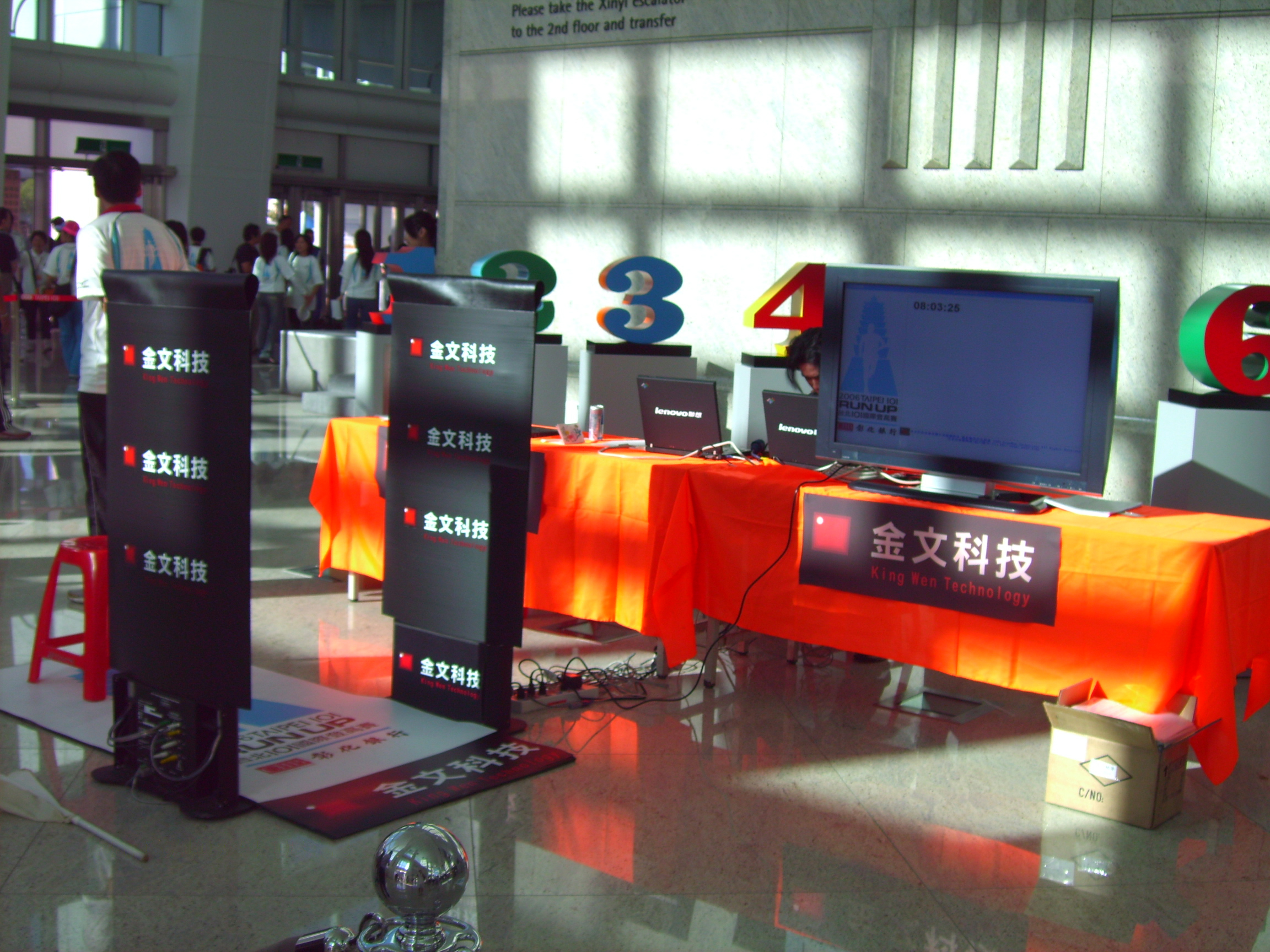 In the start line has sensor area, competitors should sensor their chips at that area before starting.